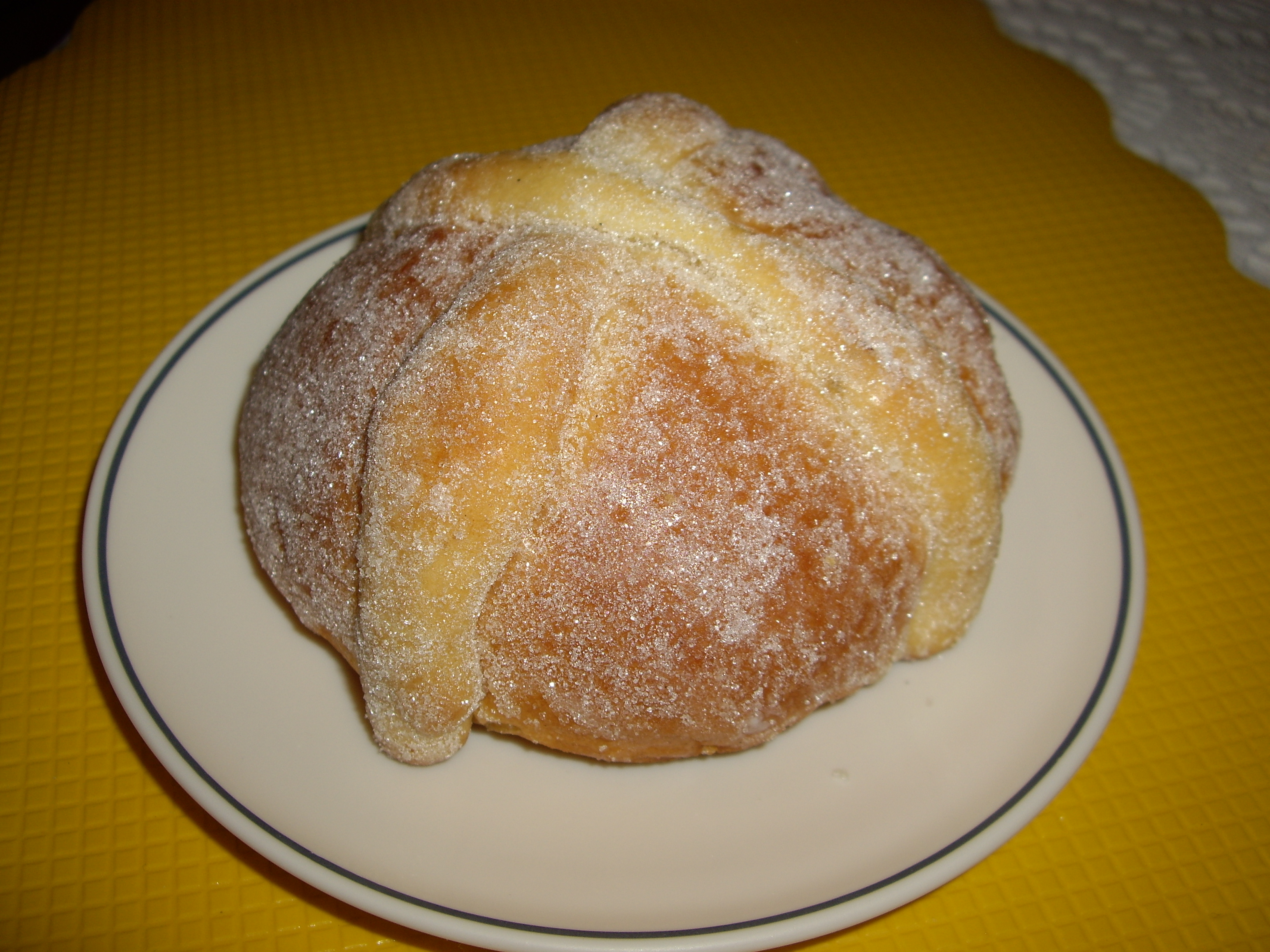 Image from Mexican pan de muerto. Title is in Nahuatl as a translation of pan de muerto to that language.